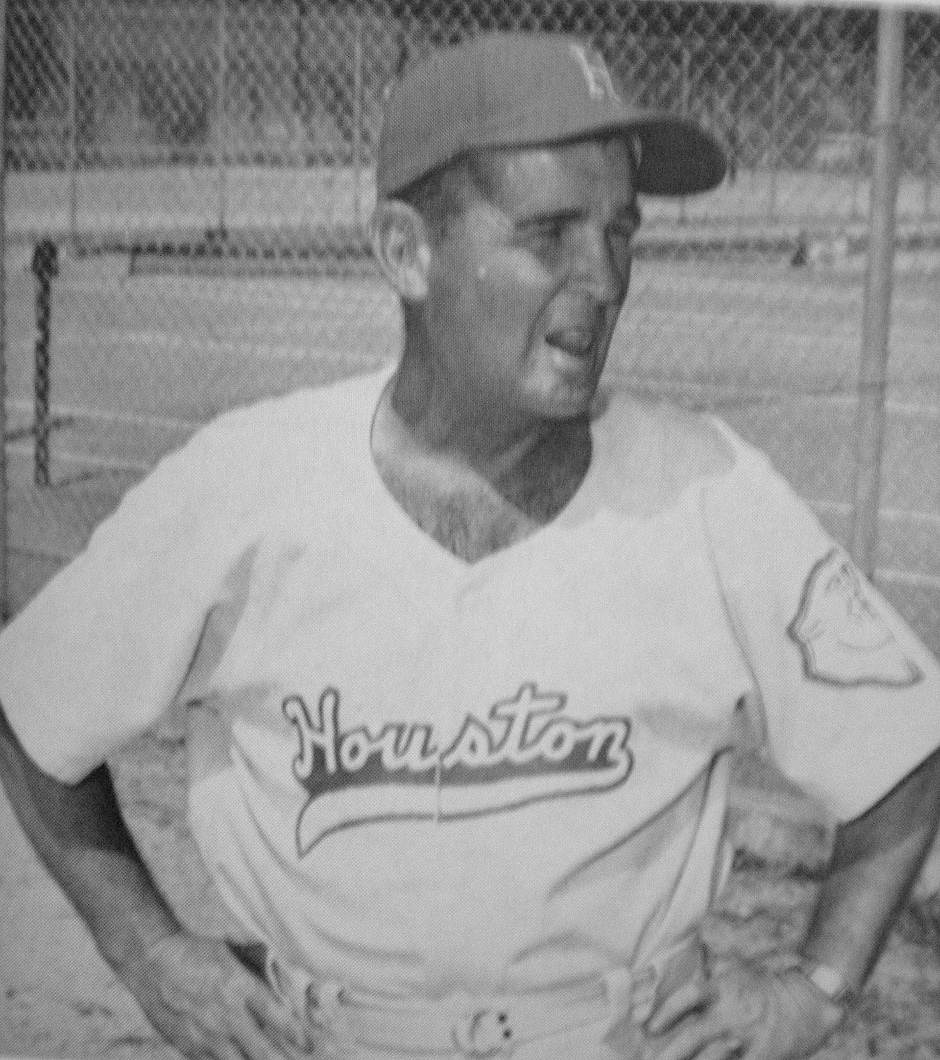 Lovette Hill, longtime Houston Cougars baseball head coach at the University of Houston from 1950-1974.